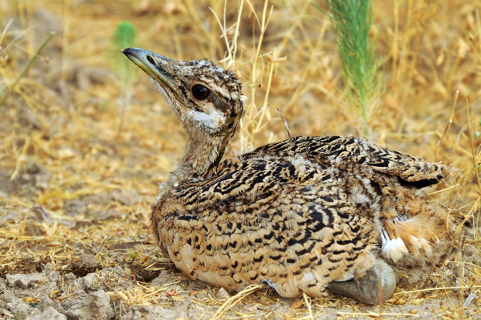 Great bustard juvenille